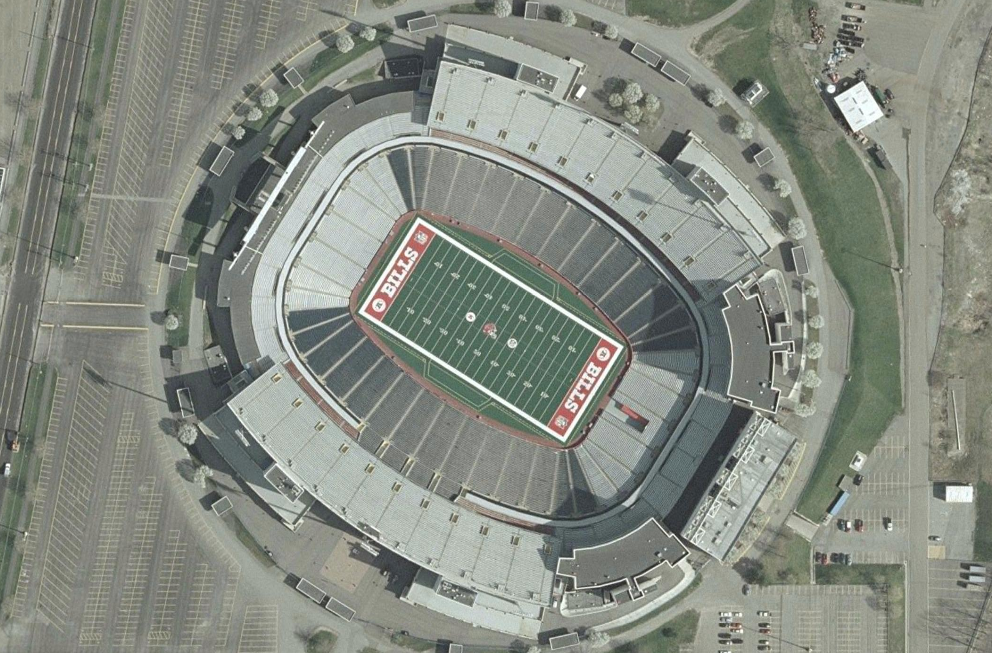 Ralph Wilson Stadium of Buffalo Bills team (NASA World Wind 1.3.5)